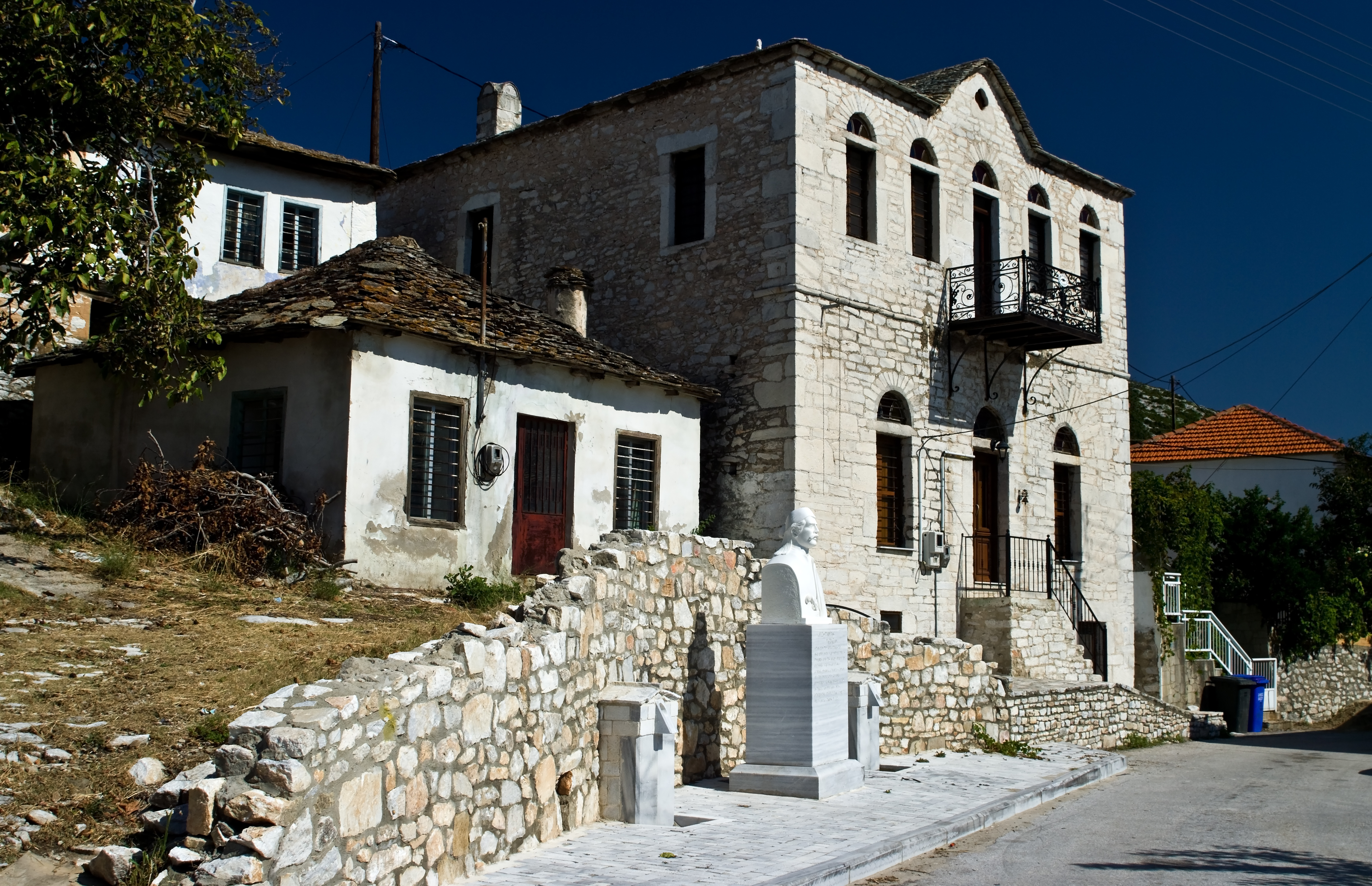 Theologos, Thasos Island, Greece.